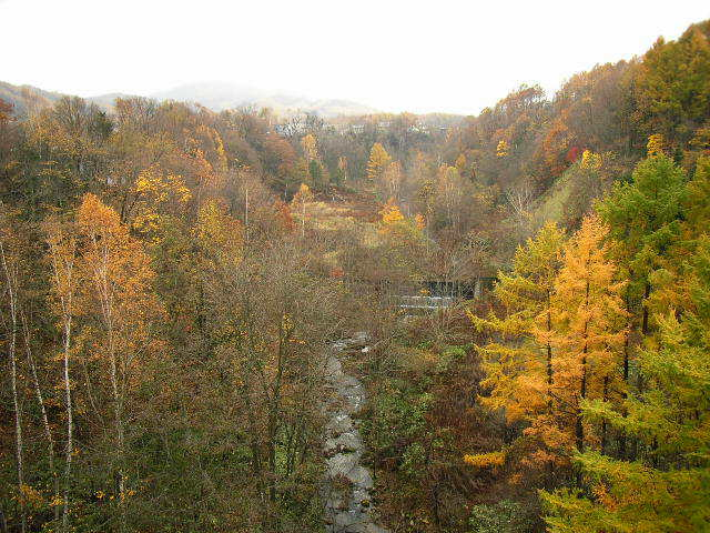 Ban'nosawa River. Toyotaki, Minami ward, Sapporo, Hokkaidō prefecture, Japan. Southward from the Ban'nosawa Bridge.